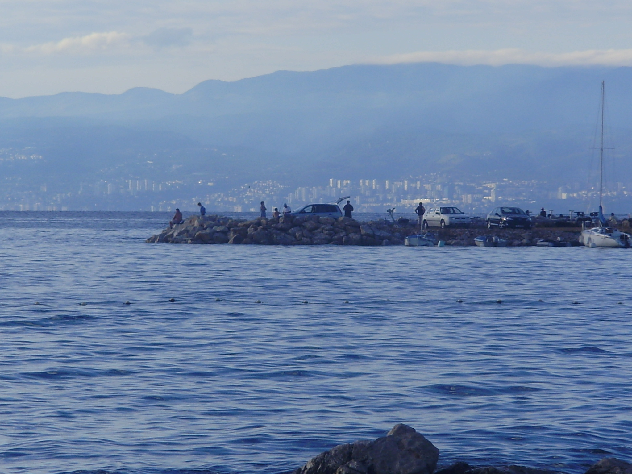 Breakwater of the harbor Malinska.